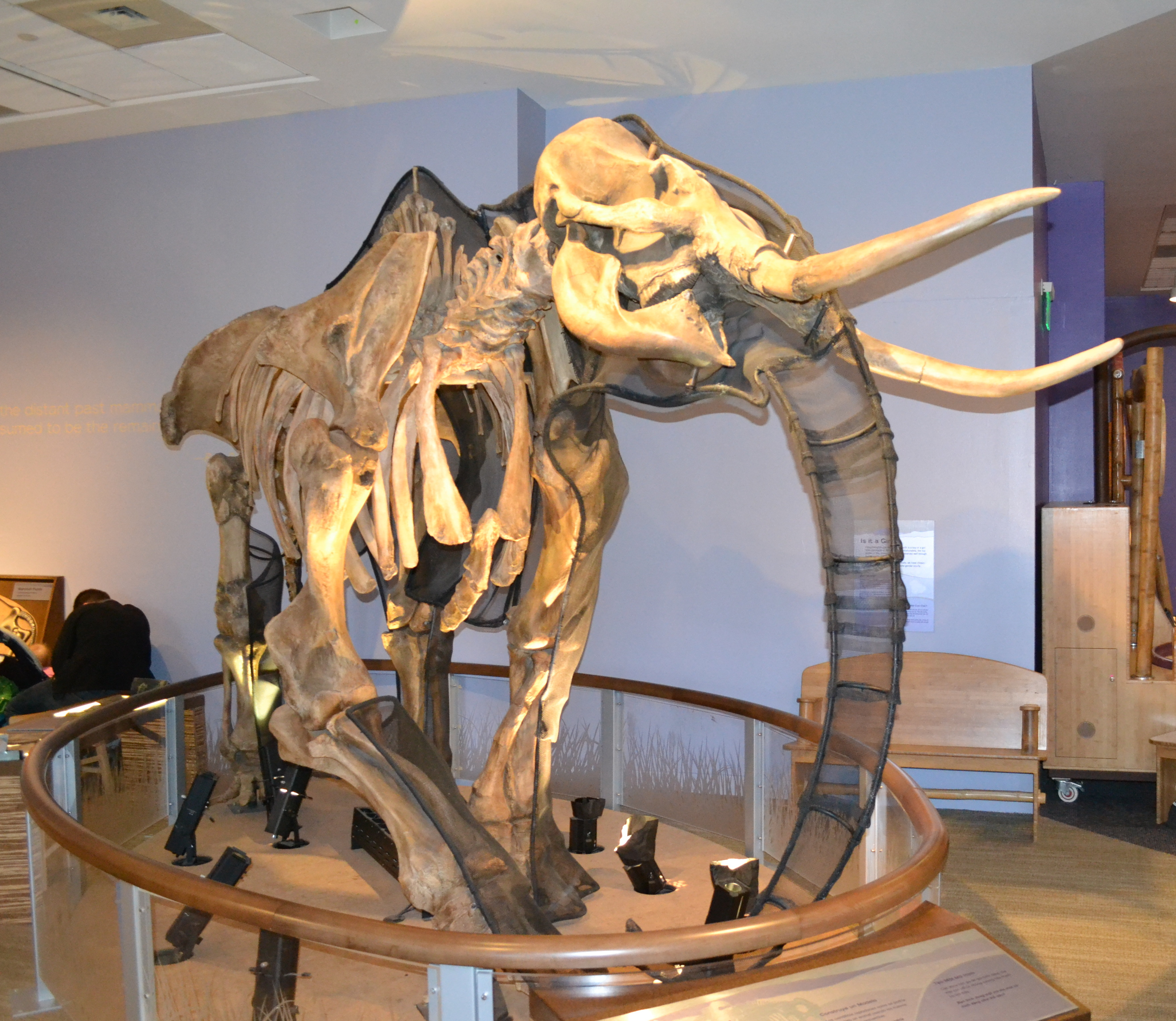 Mammoth skeleton display at Children's discovery museum in San Jose, California